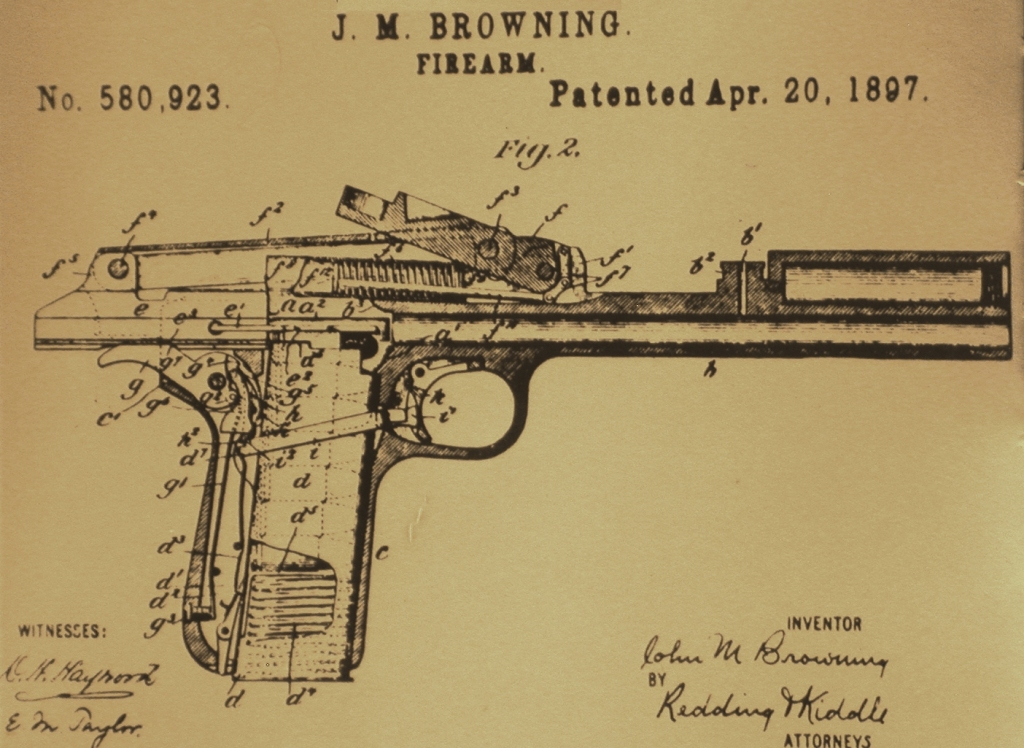 Browning Patent 1897, Gas operated Firearm